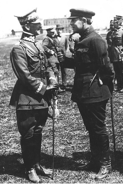 General Antoni Listowski (left) during a conversation with Chief Otaman Symon Petliura (right) during the Polish-Soviet War.